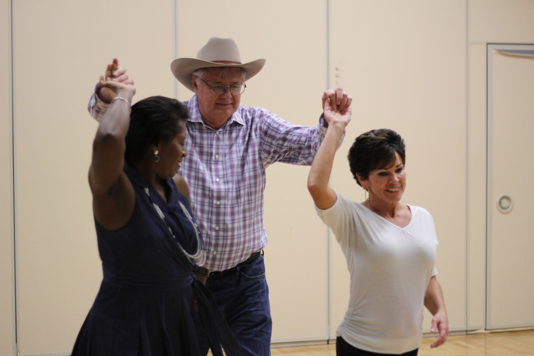 Arthur Murray Dance Studio in The Woodlands TX: Mike Danahy, Emma Moore, and Sandy Burrier participate in group class for Double Partner Dancing.